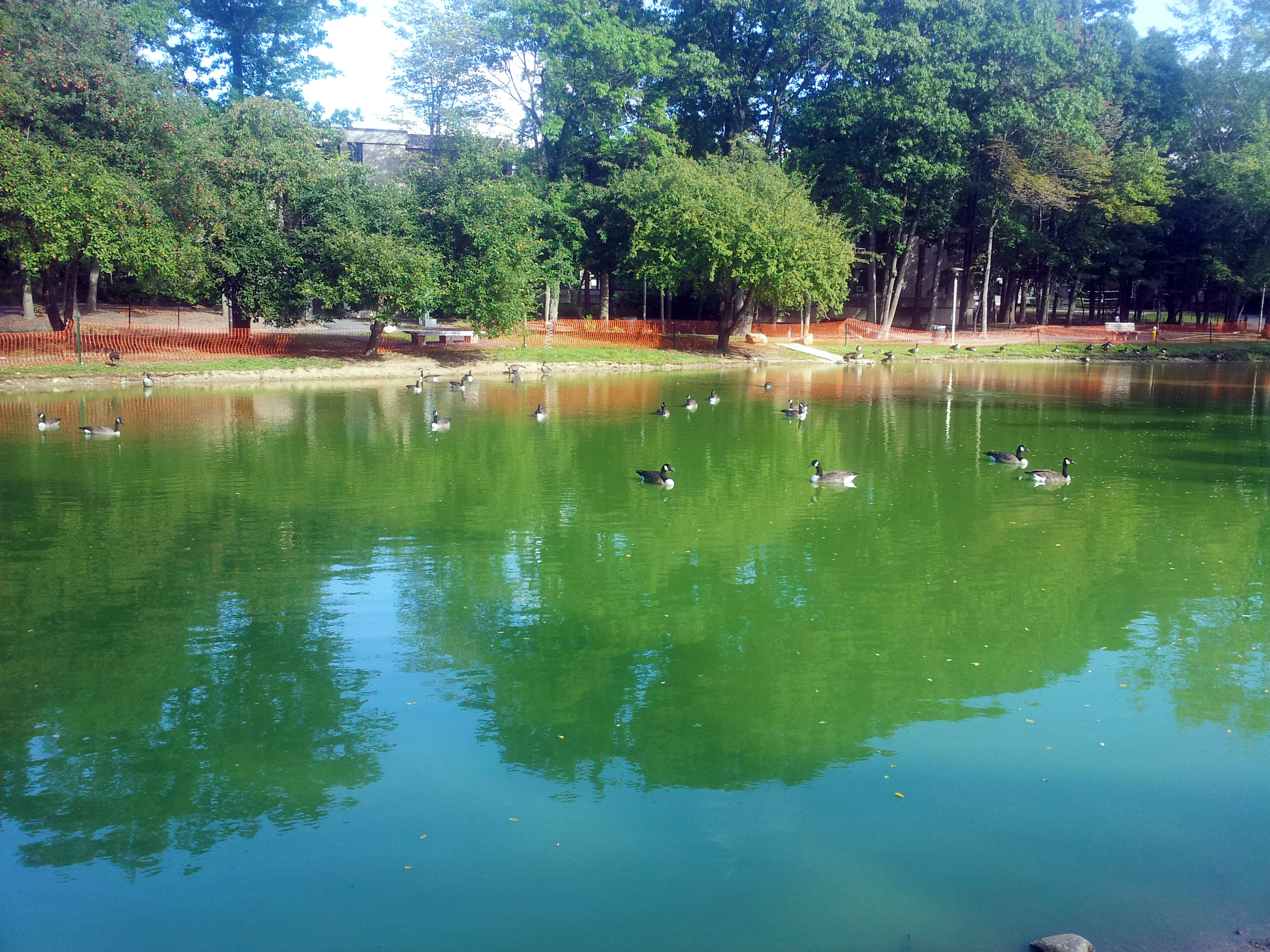 Roth Pond